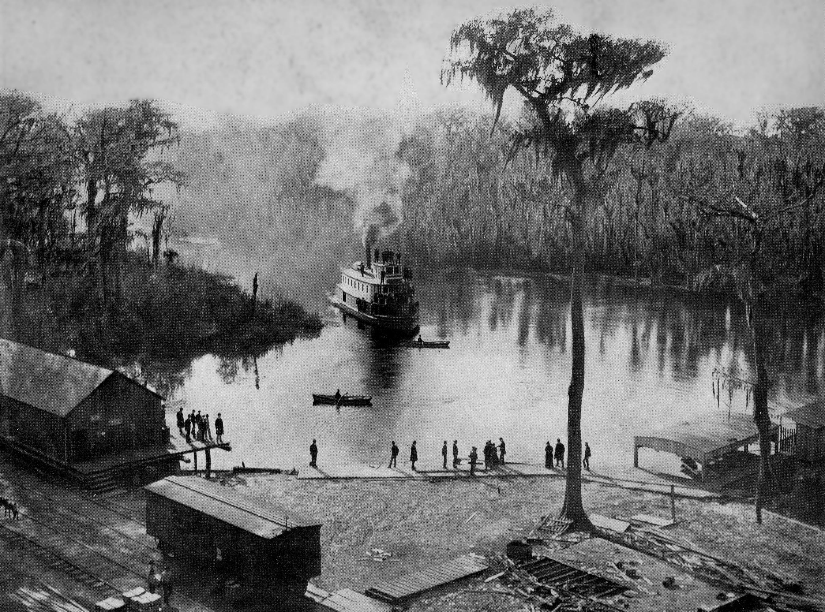 Silver Springs, Florida, Marion County, in about 1901, inside Silver River State Park. A giant karst spring of the artesian type. With its mean discharge of ca. 23 m³/s it is one of the largest artesian springs of the world.